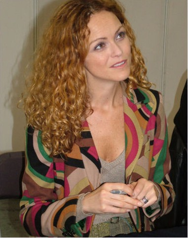 From Doctor Who